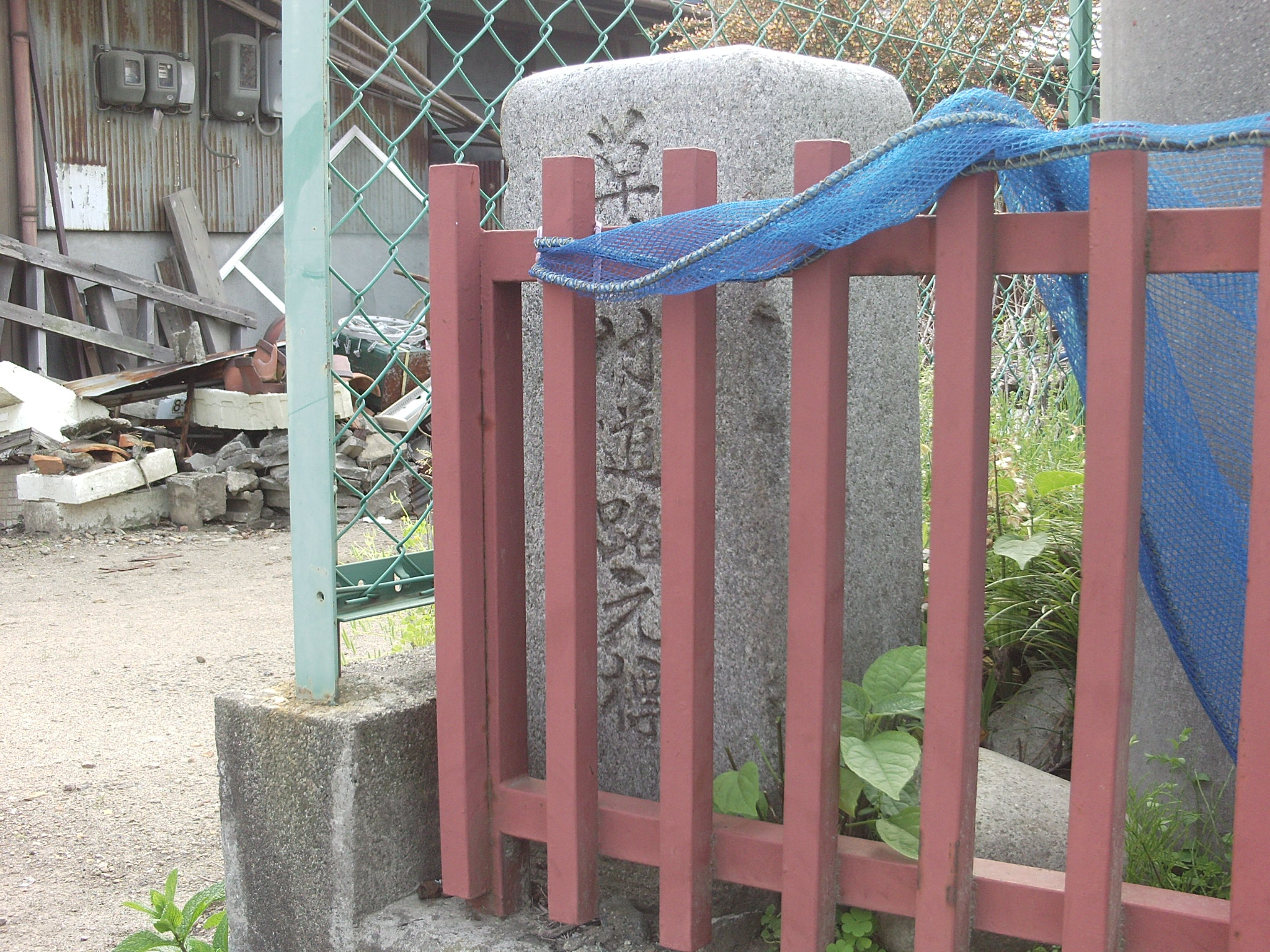 Kilometre zero of Kusai village. (Kusai village, Haguri-gun, Aichi.)